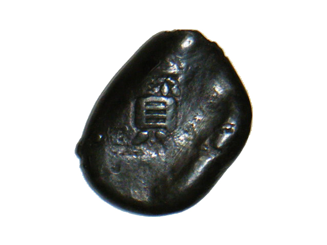 Yotsuho-mameitagin